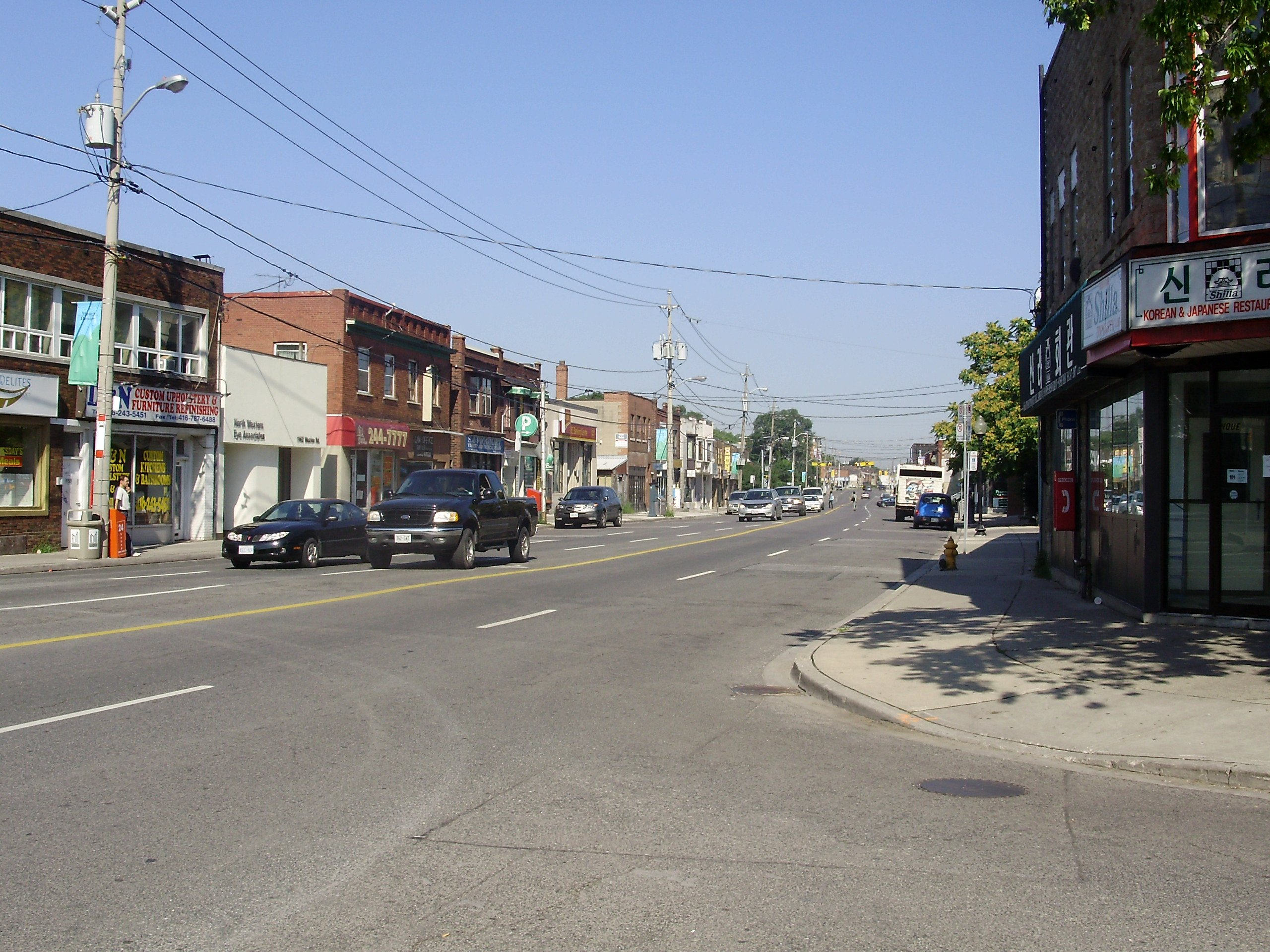 Looking northwest up Weston Road from Hollis Ave, in the neighbourhood of Mount Dennis in Toronto, Ontario, Canada.